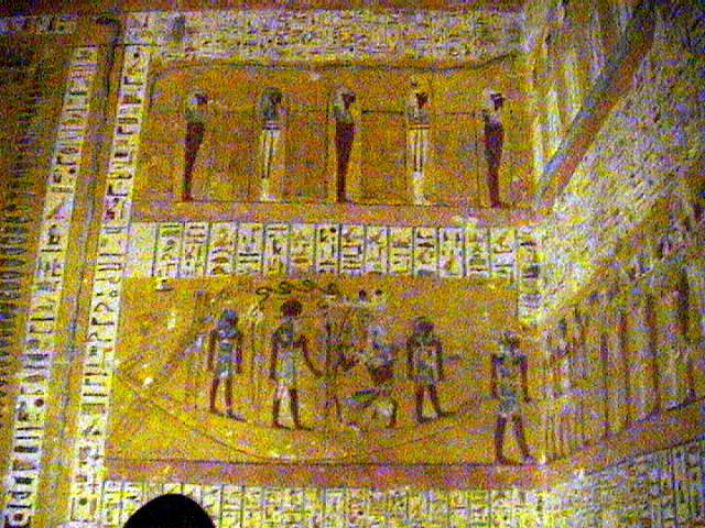 Tomb of Ramses IV – 20th dynasty /Valley of the Kings.